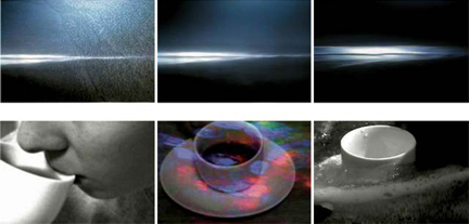 Tim White-Sobieski, Terminal IV (On The Wing) 2003 Video stills